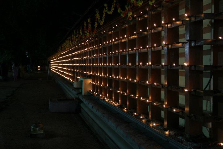 Chuttuvilakku (Surrounding lamps) at the Thrikkakara Vamanamoorthy temple during Onam.